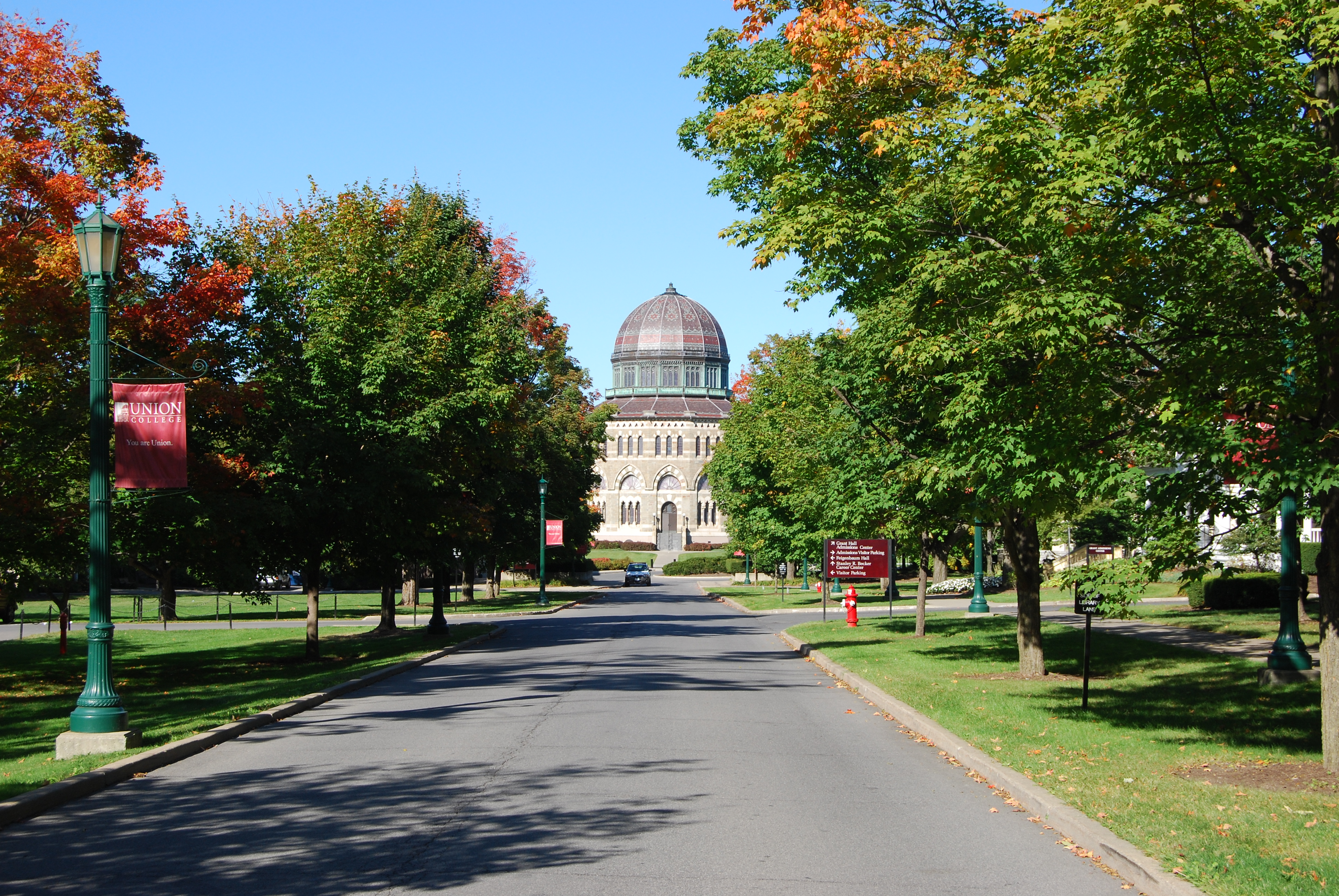 View of the Nott Memorial from Library Lane on the campus of Union College in Schenectady, New York, United States